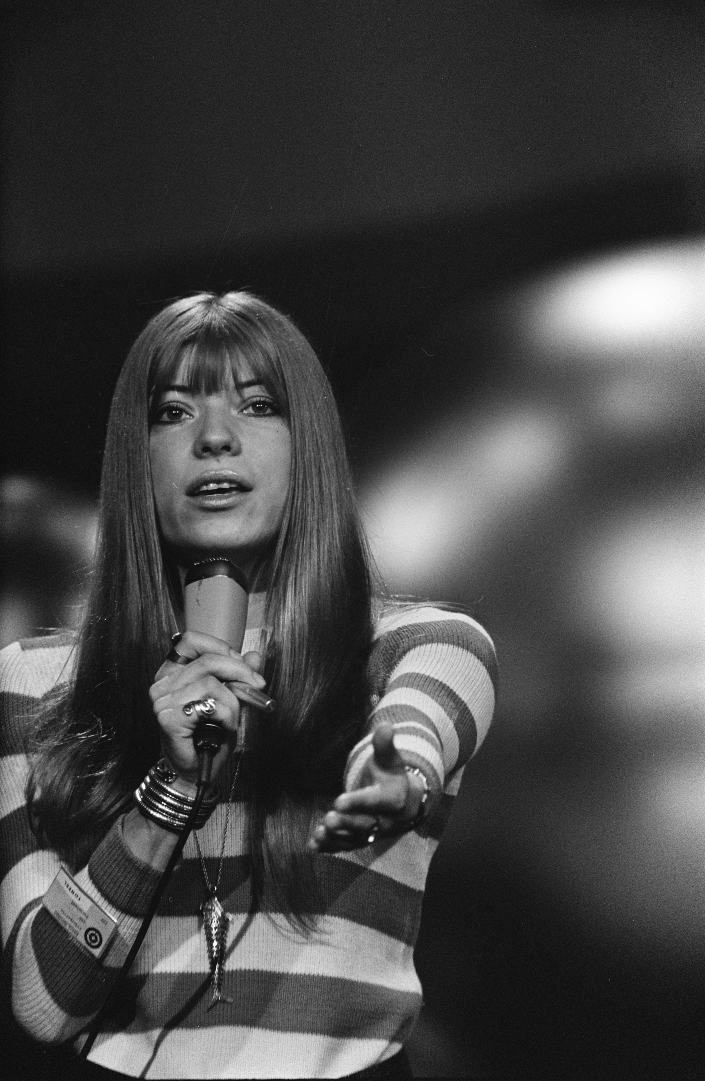 Katja Ebstein during rehearsals for the 1970 Eurovision Song Contest